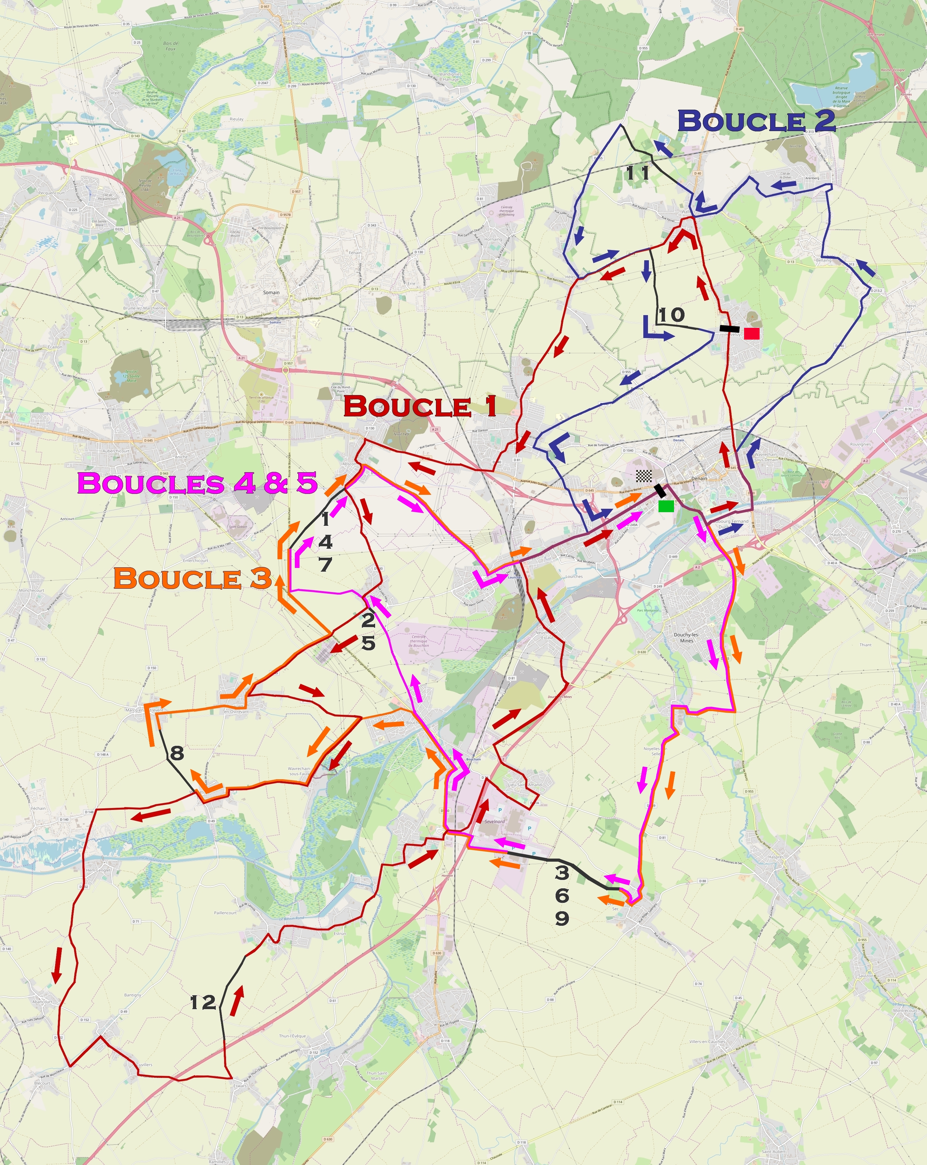 Parcours du Grand Prix de Denain 2019. This map may be incomplete, and may contain errors. Don't rely solely on it for navigation.